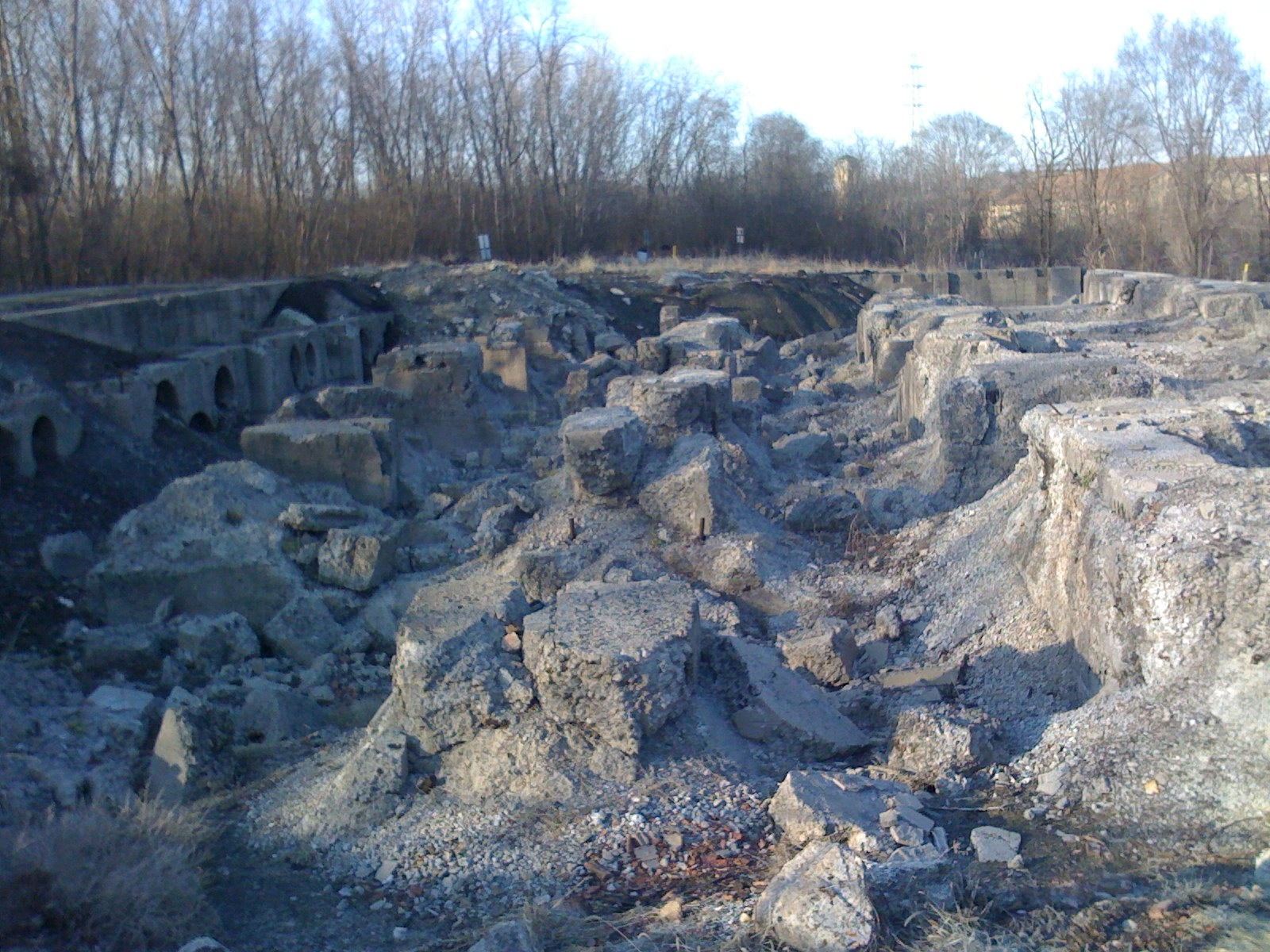 Picture of some of the ruins at the Joliet Steel Works. Joliet Prison can be seen in the background.